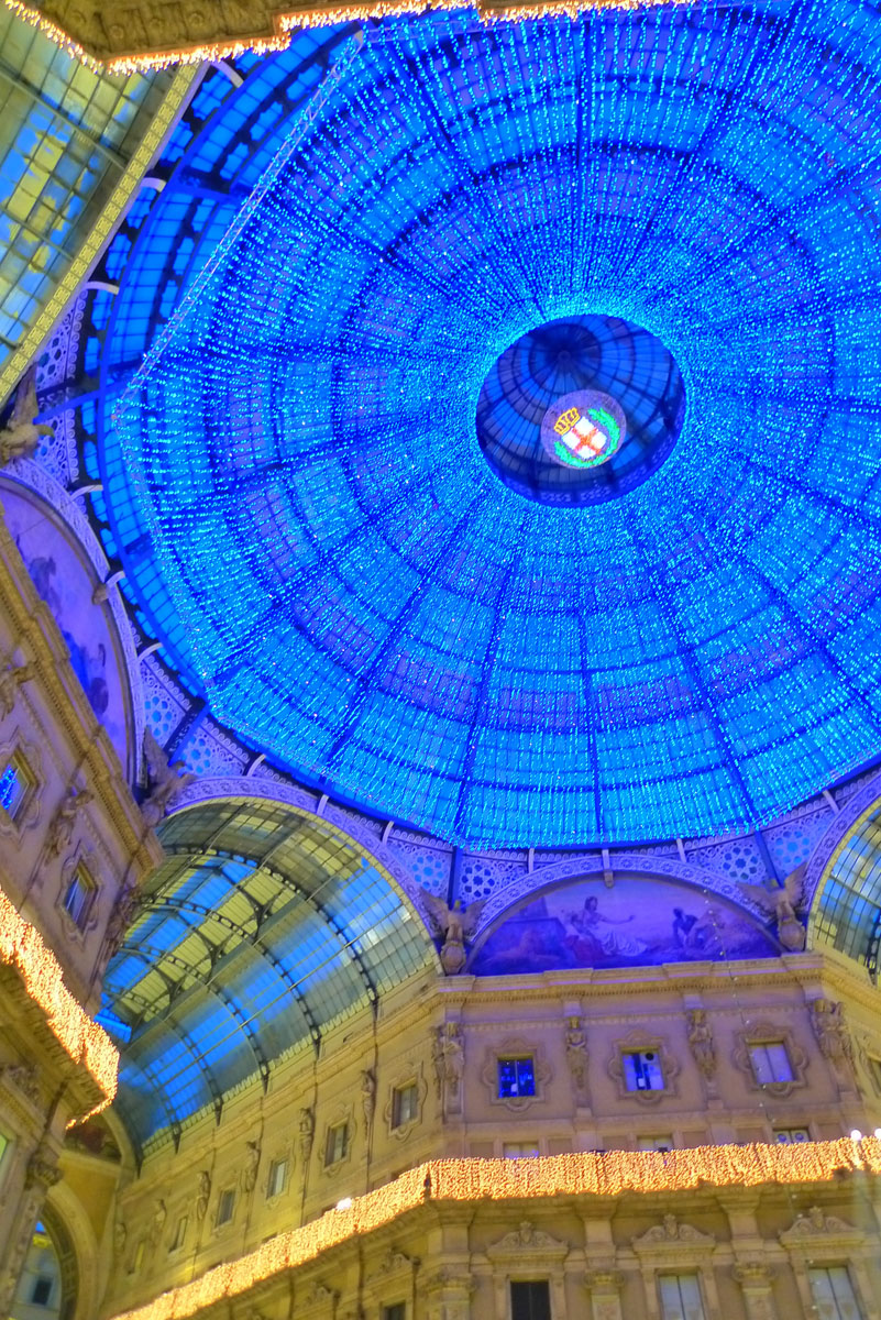 milan galleria vittorio emanule II